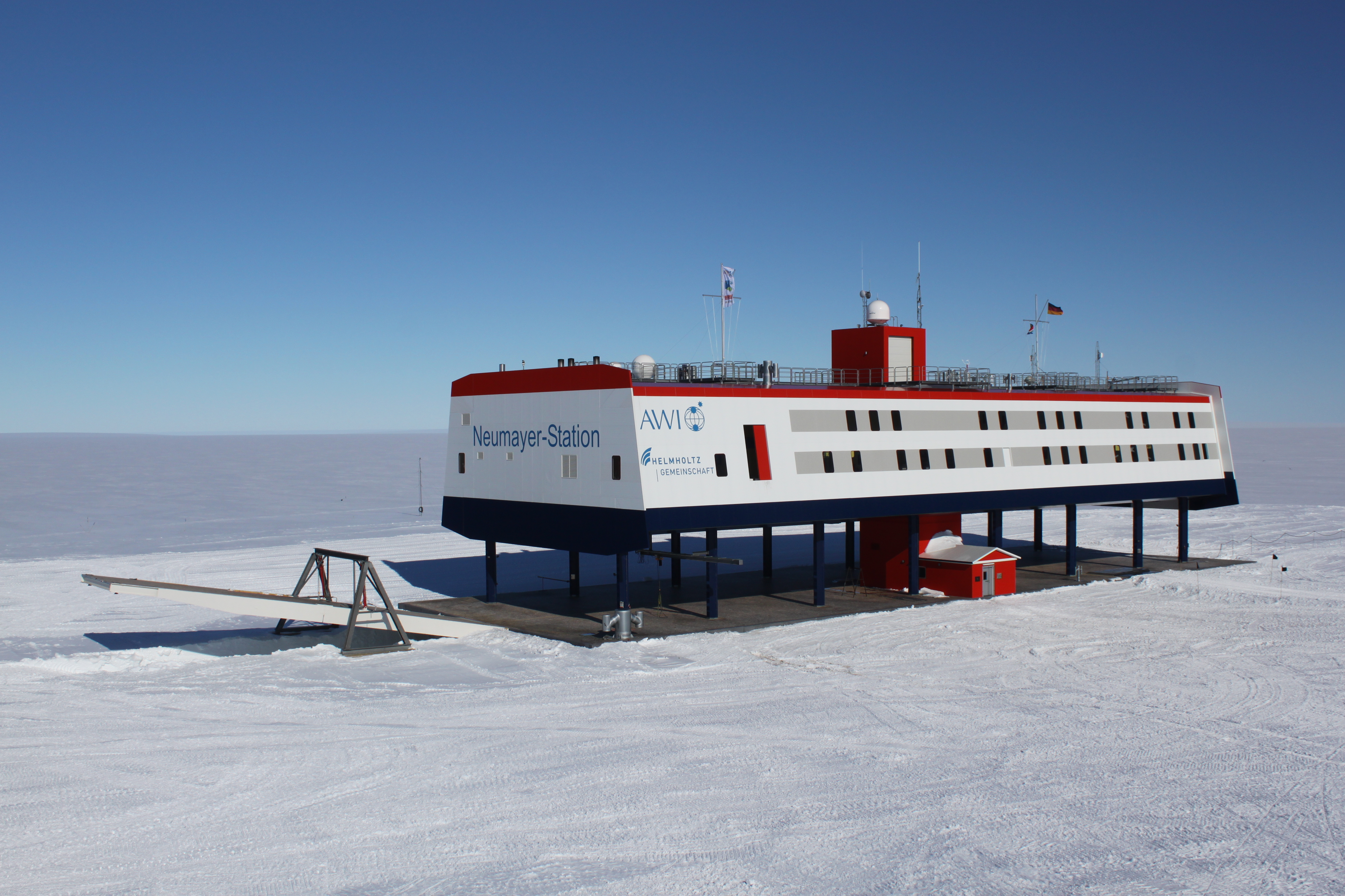 German Antarctic research base Neumayer Station III, located in Dronning Maud Land, Antarctica, operated by the Alfred Wegener Institute Helmholtz Centre for Polar and Marine Research (AWI)